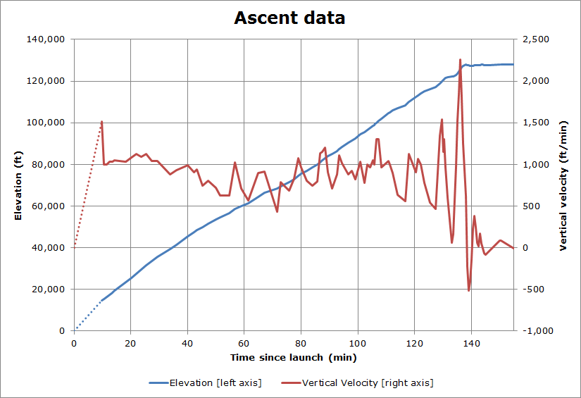 Plot of data on Red Bull Stratos/Mission data. Shows ascent data from mission.